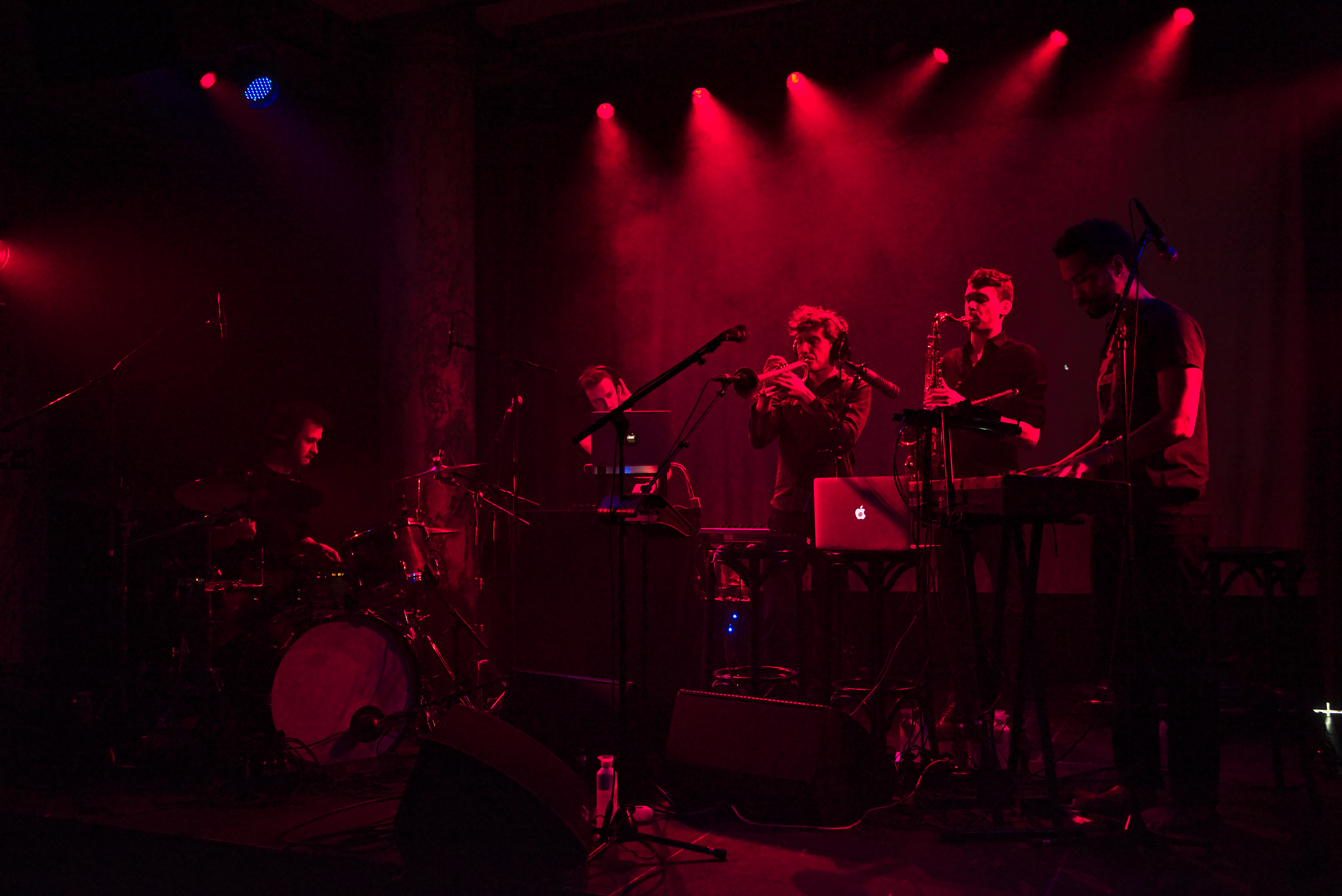 Boogie Belgique concert at De Roma (2018-03-03)